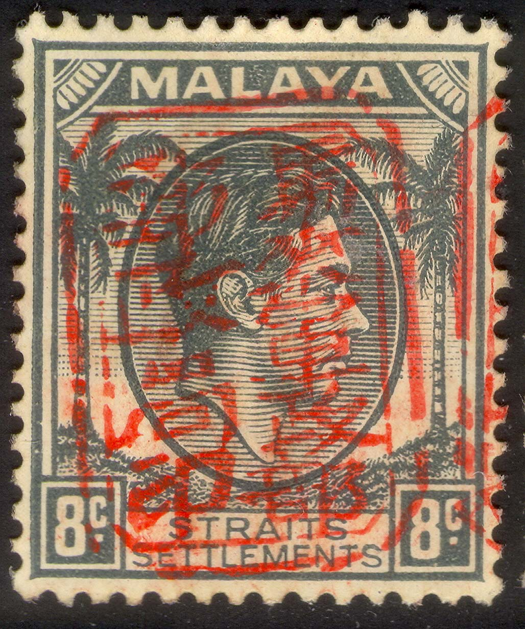 1942 Malaya Strait Settlements stamp, double frame line, 8c, Japanese Occupation overprint. SG # ?.